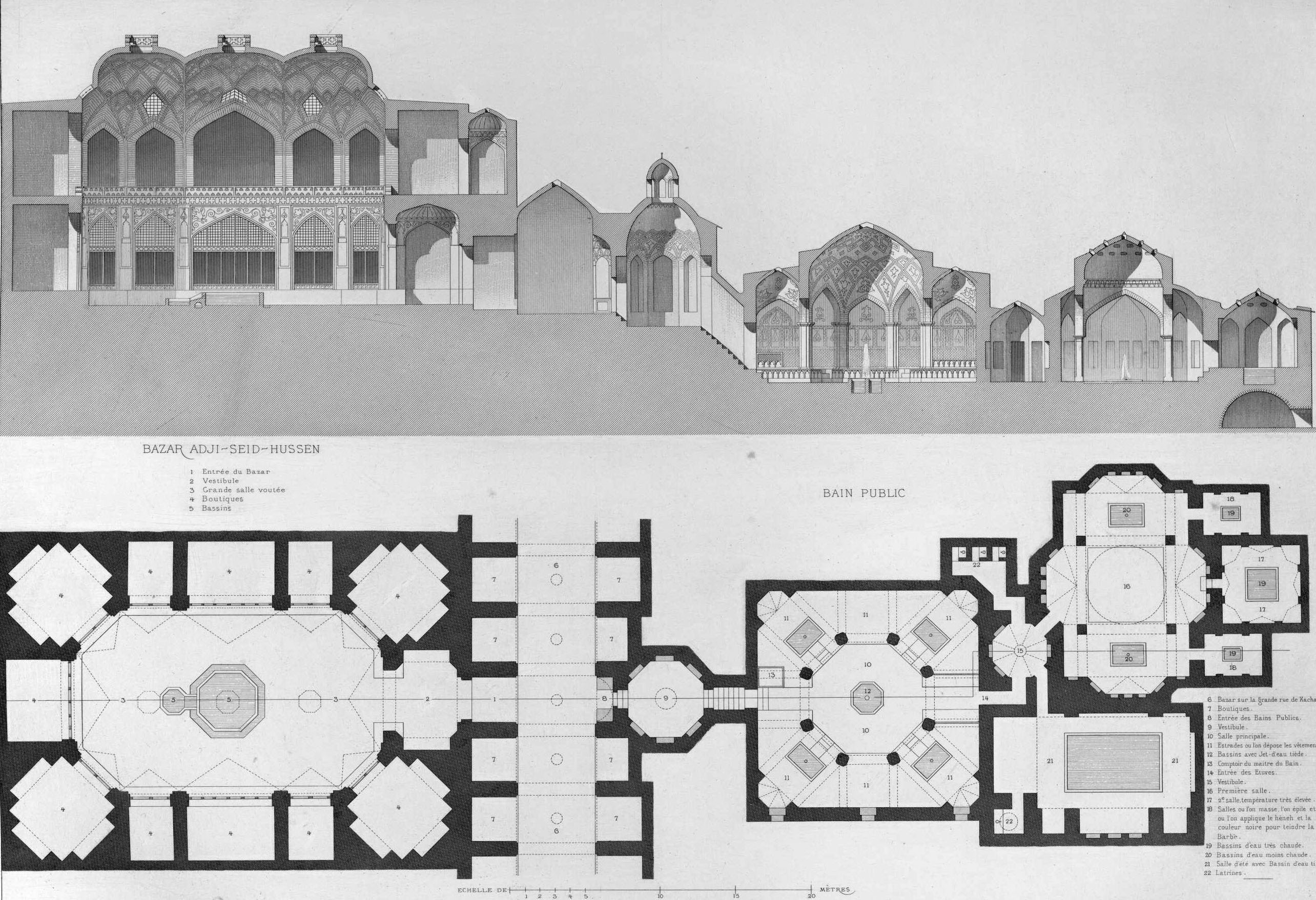 Plates on the bazar - Haji Seid Hussein and bathhouse Kashan